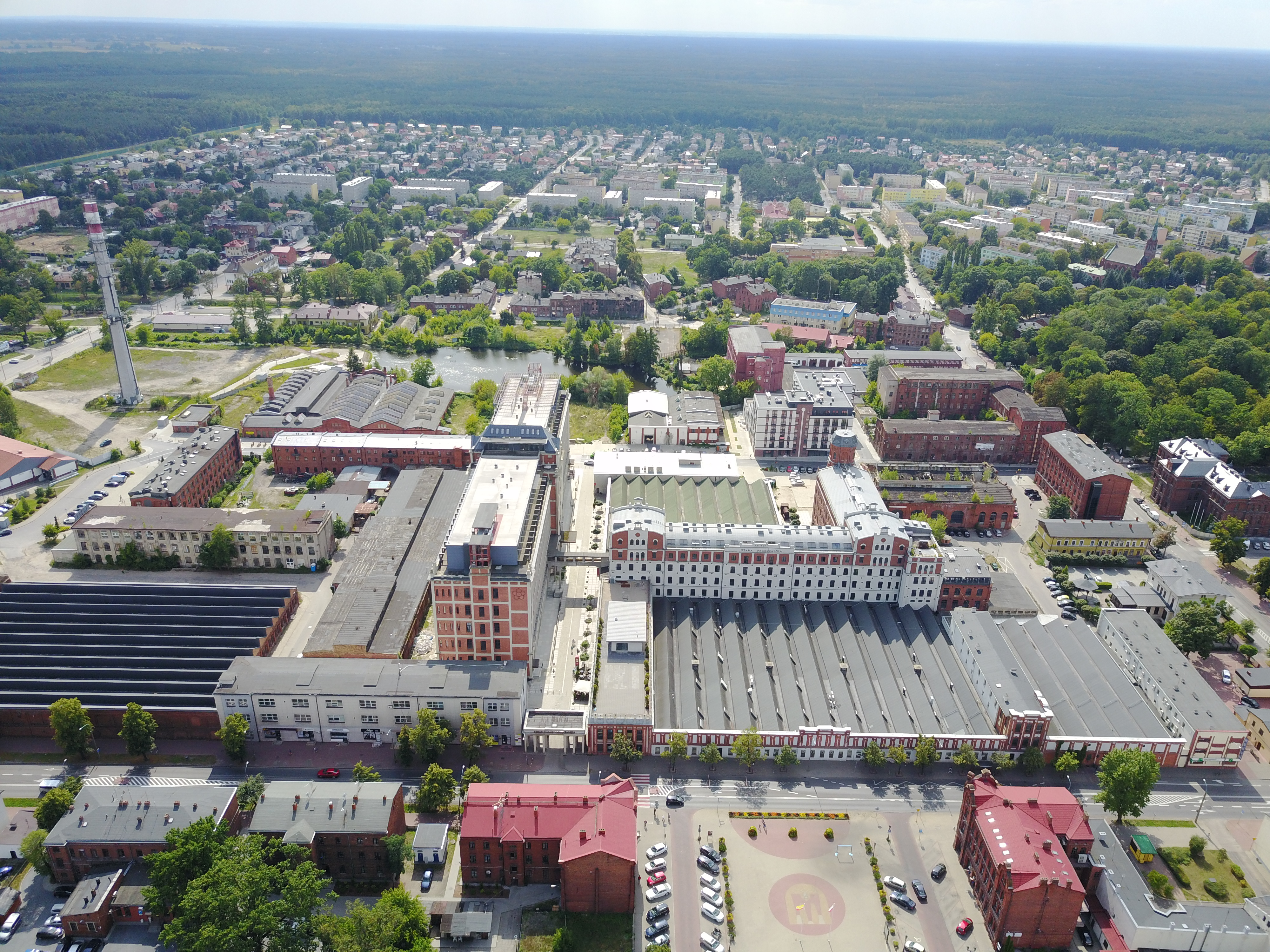 Aerial photographs of 19th-century Factory Town in Żyrardów